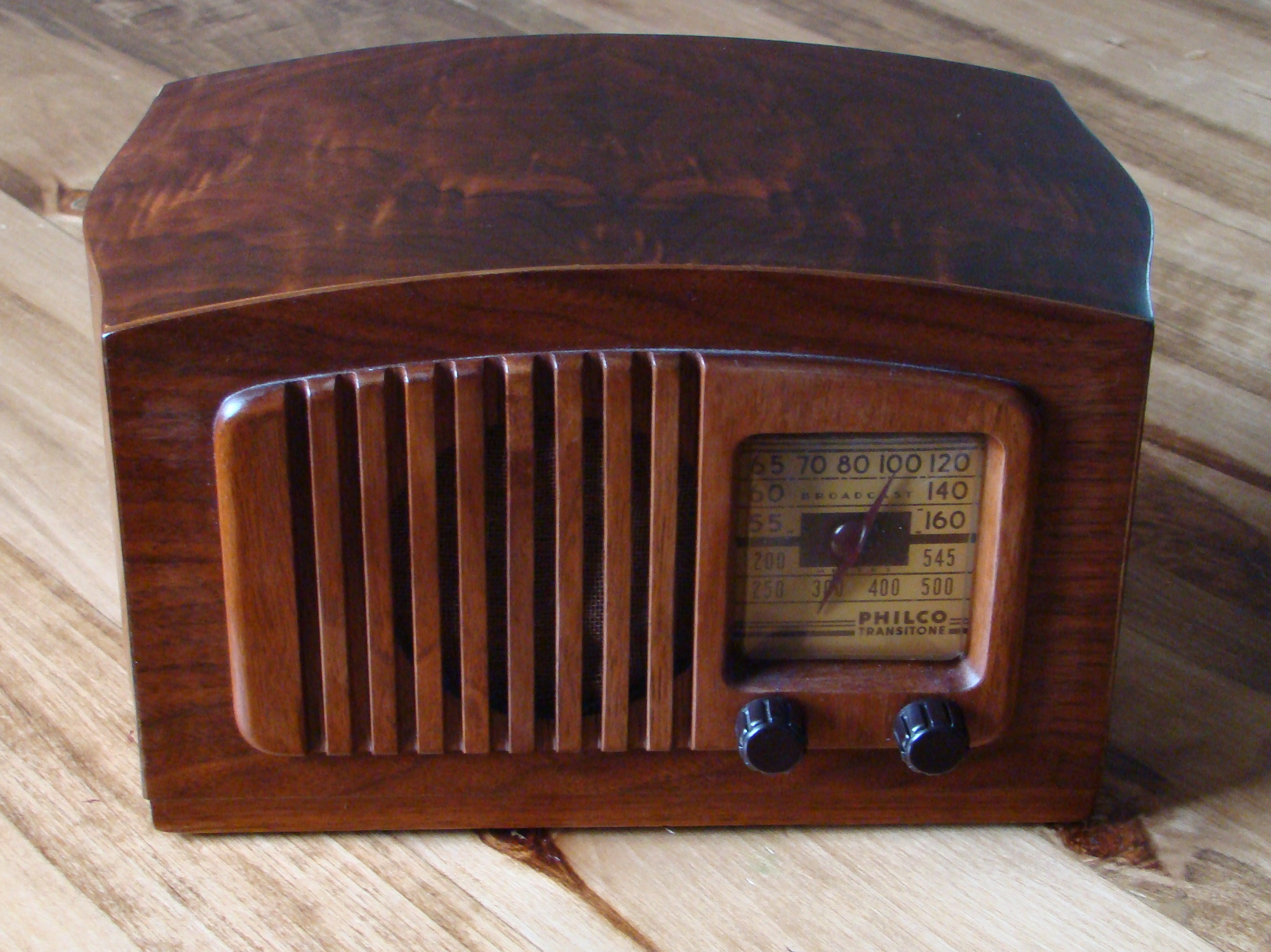 Vacuum tube radio, Philco, model PT-44, front